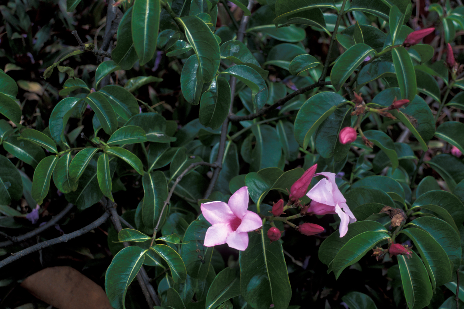 Cryptostegia grandiflora (flowers). Location: Maui, Enchanting Floral Gardens of Kula